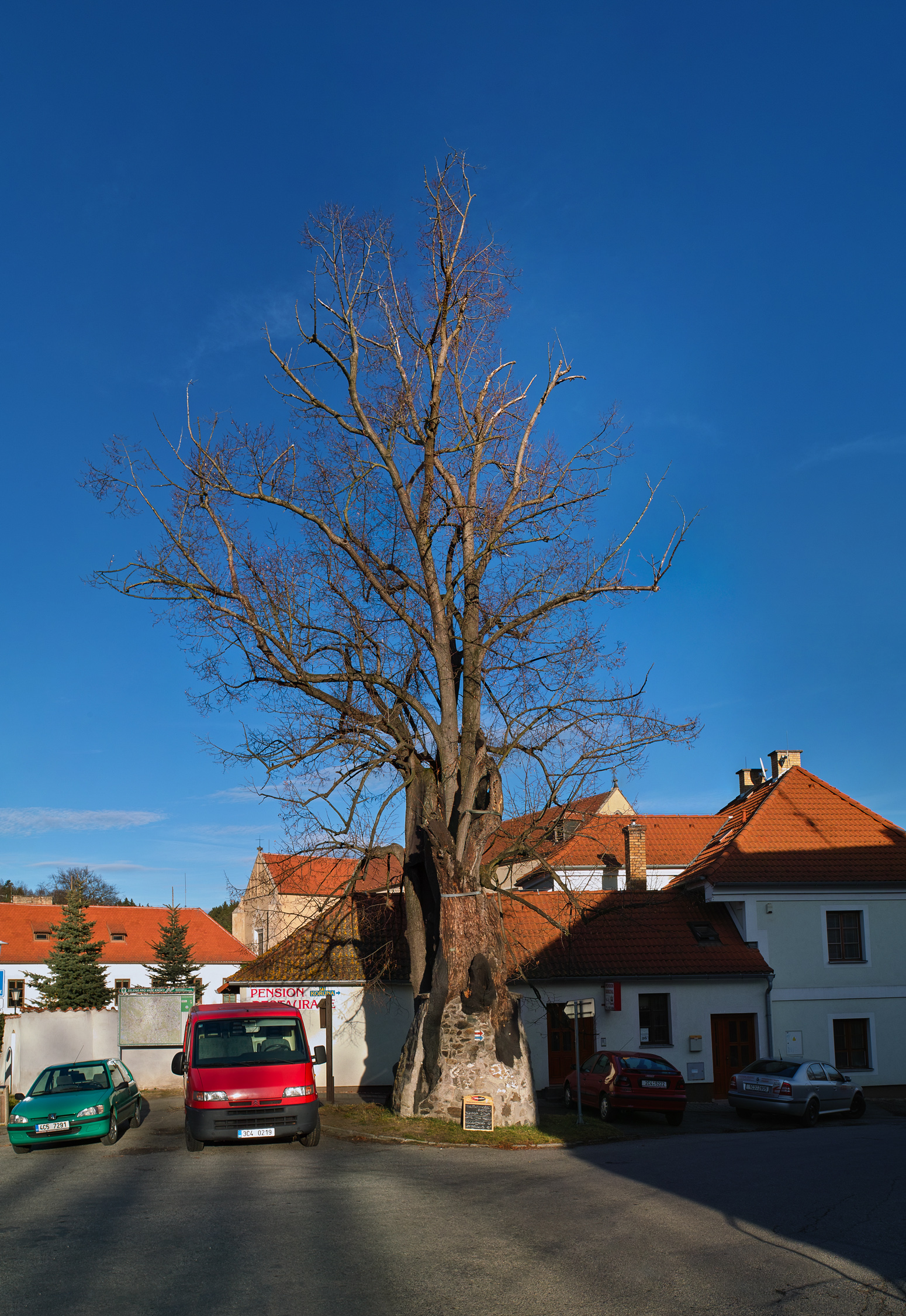 700 years old memorable lime tree located in Zlata Koruna, Czech Republic